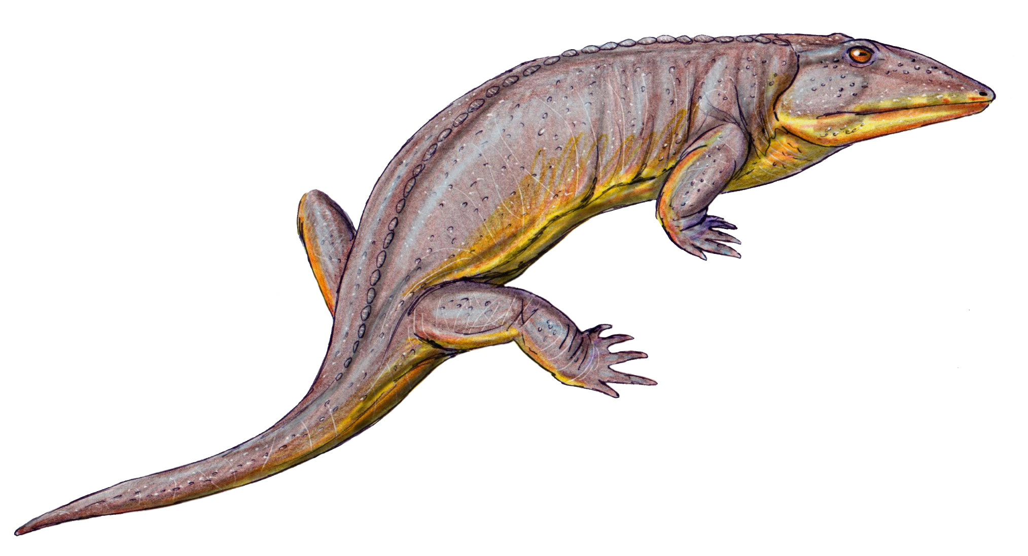 Axitectum - bystrowianid reptiliomorph from lower Triassic deposits of Nizhni Novgorod and Kirov Regions, Russia